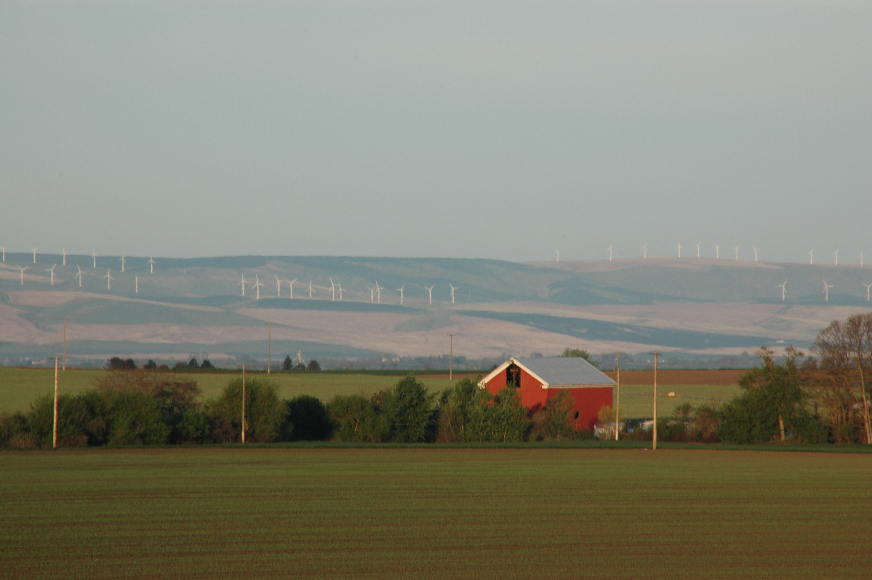 Wind turbines at Russell Creek, USA